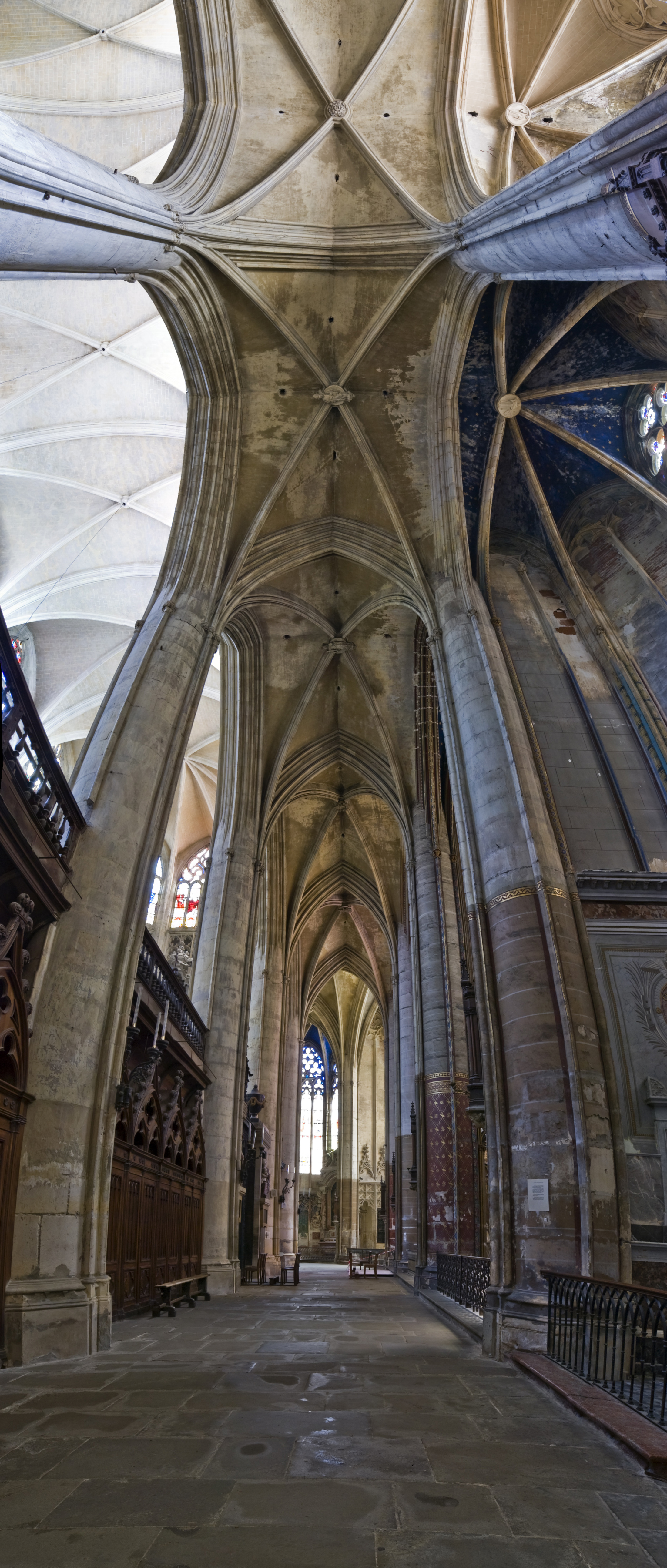 Vertical panorama of south ambulatory, cathedral Saint-Étienne (Toulouse, France)